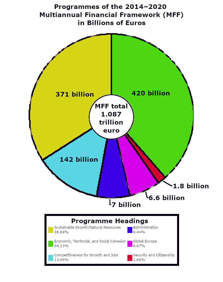 2014-2020 European Union Multiannual Financial Framework (MFF) programme expenditures by programme heading